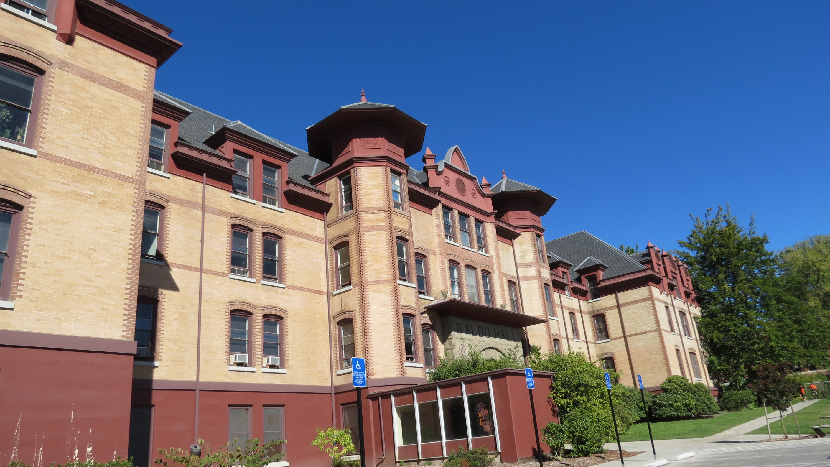 Waldo Hall 2250 SW Jefferson Way Oregon State University Historic District